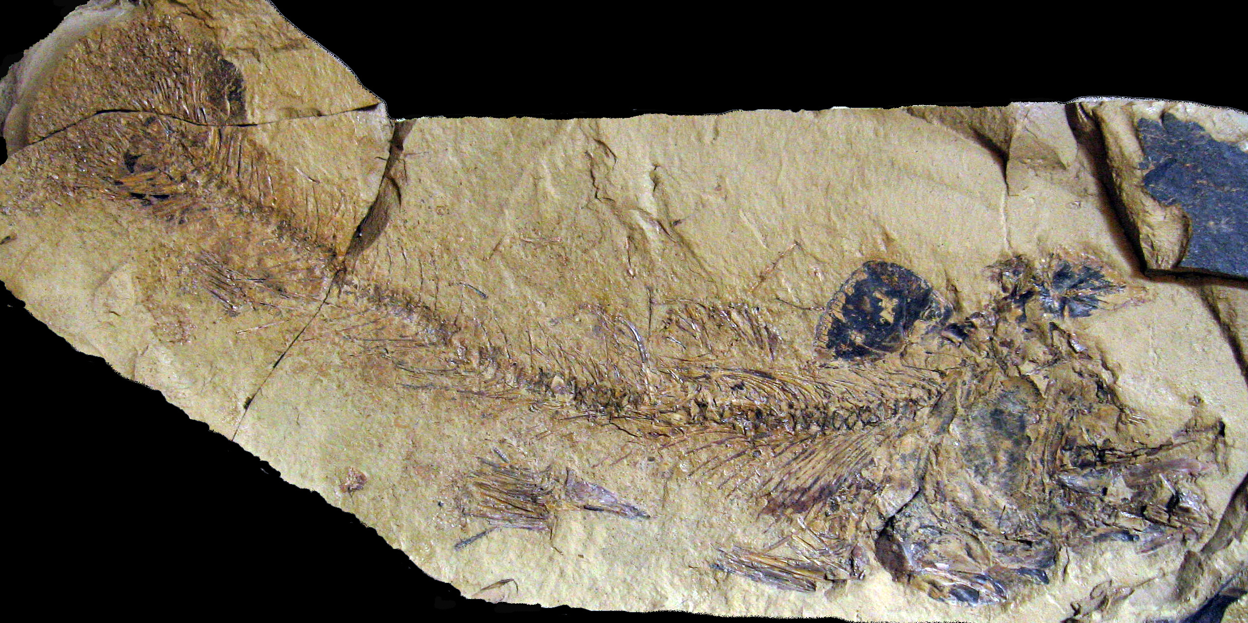 A 17 inch specimen of Eosalmo driftwoodensis. Found in 2000 . Eocene, 49 million years old, "Boot Hill", Klondike Mountain Formation, Republic, Washington, USA. Stonerose Interpretive Center # SR??-??-??.